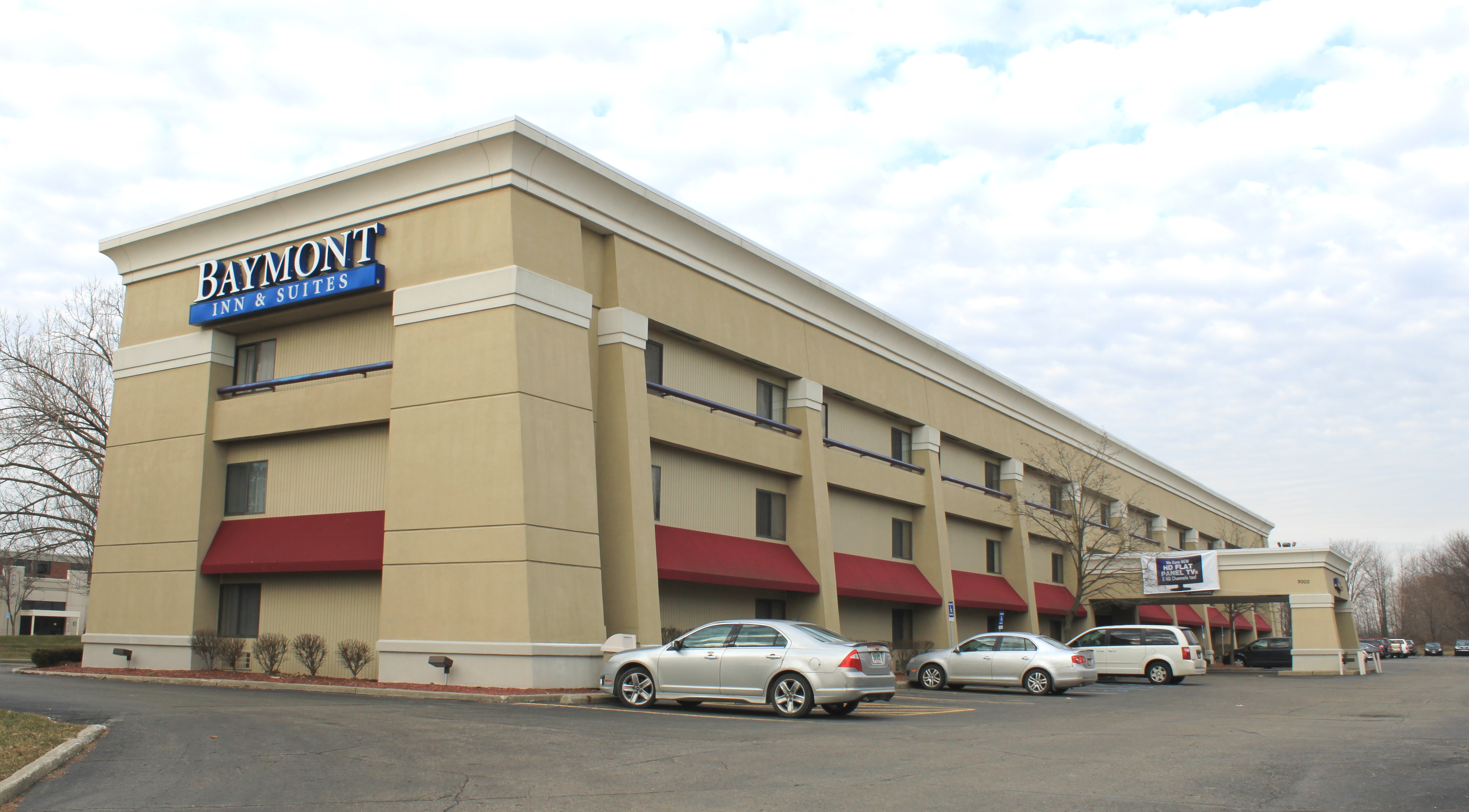 Baymont Inn & Suites, 9000 Wickham Road, Romulus, Michigan.